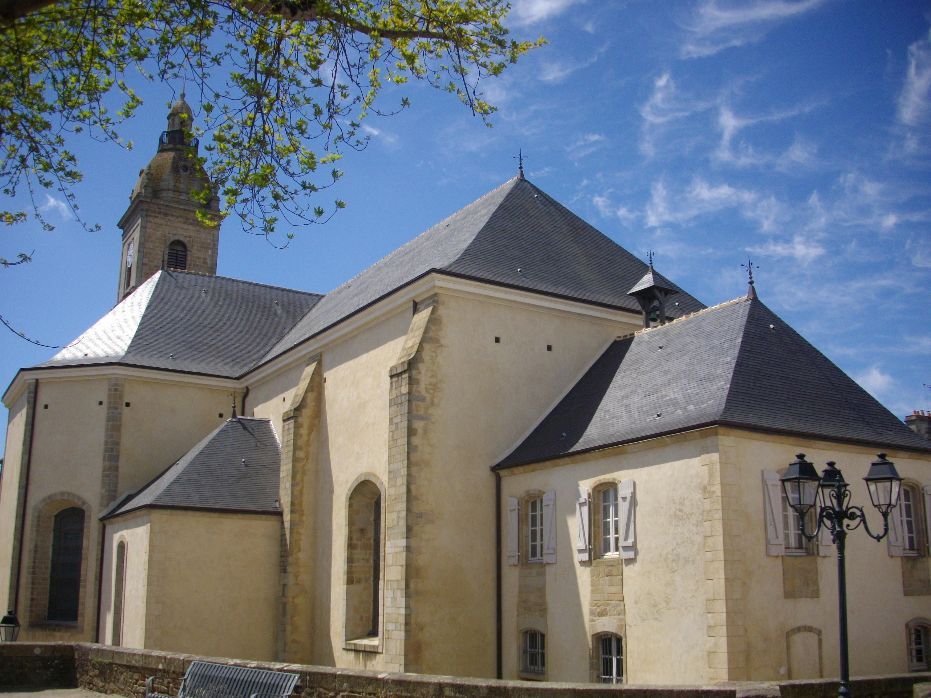 Saint Padarn church of Vannes (Morbihan, France), apse .